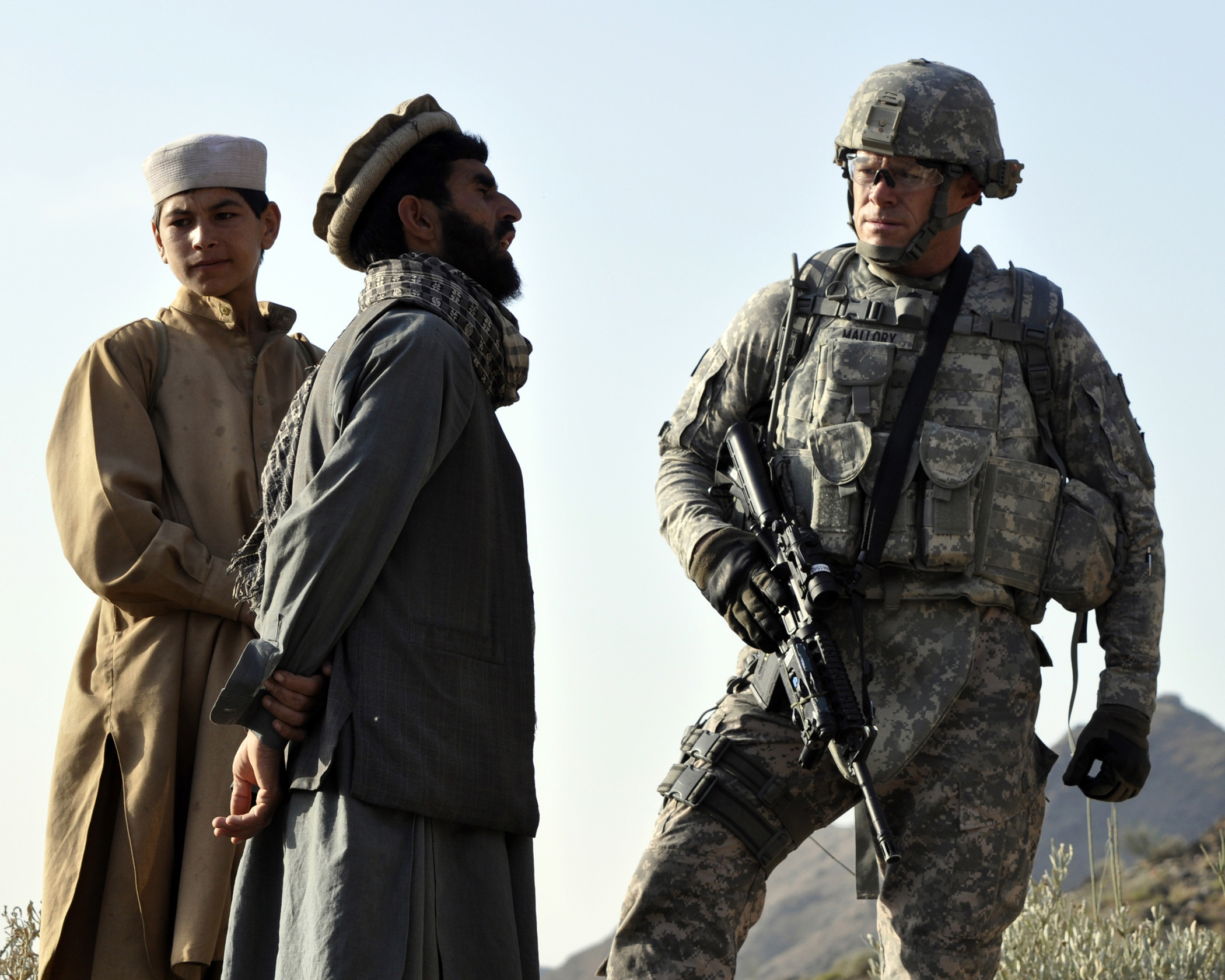 U.S. Navy Cmdr. Bill Mallory (right), commanding officer of the Nuristan Provincial Reconstruction Team, listens to a Kautiak village leader in the Nuristan province of Afghanistan on Oct. 30, 2010. The Provincial Reconstruction Team members visit Afghan residents to determine sources of instability, enhance support for the government and recommend improvements to their communities.